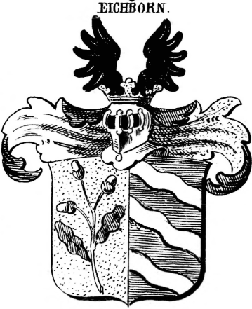 Coat of arms of noble family Eichborn (Siebmacher's großes und allgemeines Wappenbuch, Bd. 3 (Blühender Adel deutscher Landschaften unter preußischer Vorherrschaft), 2. Abt., Bd. 1, T. 1: Der blühende Adel des Königreichs Preußen: Edelleute A-L, Nürnberg 1878, Tafel 164).